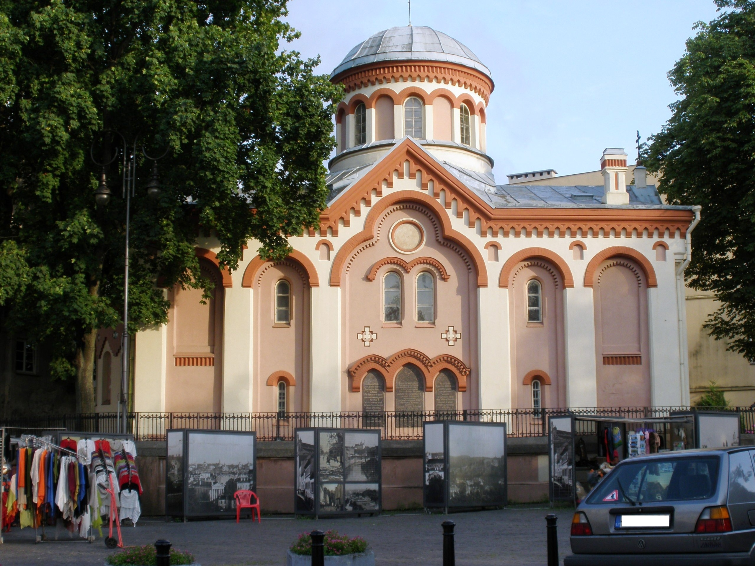 Church in Vilnius, Lithuania